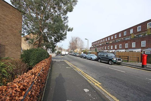 Lansdowne Drive, London Fields, London E8